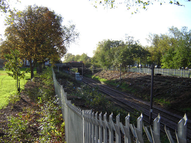 Stoke Newington Common, Hackney, London. 4 November 2005. Photographer: Fin Fahey.